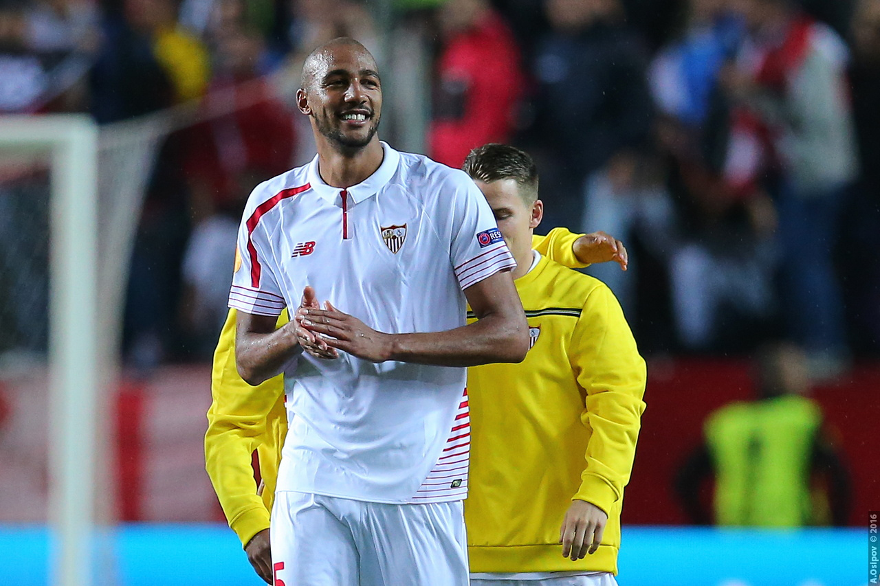 UEFA Europa League 2015/16. Semi-finals. Return leg. May 5, 2016. Spain. Seville. Ramon Sanchez Pizjuan. 17 oC. Att: 41,269.